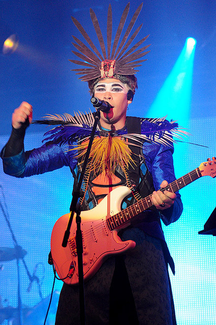 Luke Steele, member of the duo Empire of the Sun at Wellington Square in 2007.